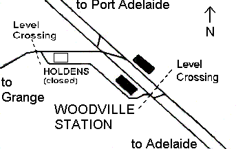 Author: Ian Threlfall